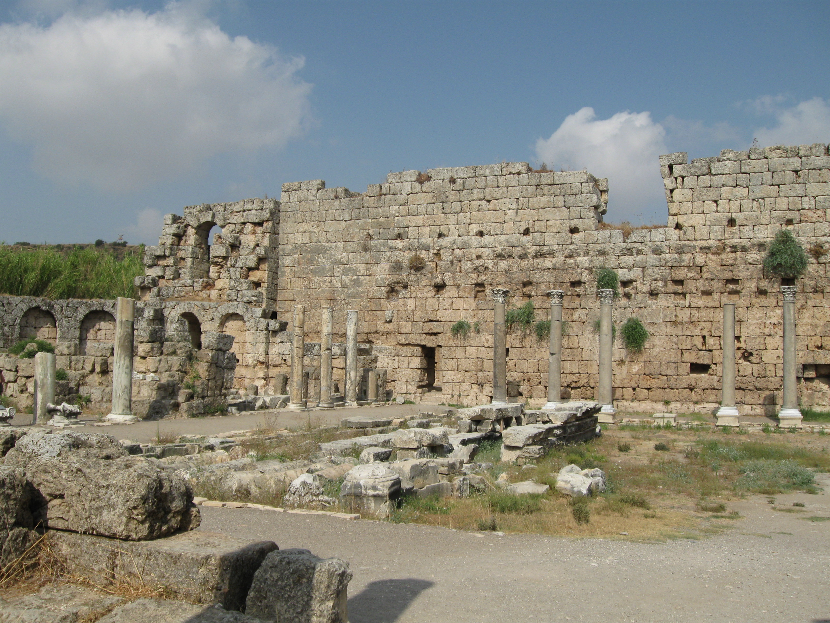 Palaestra in front of the Roman baths